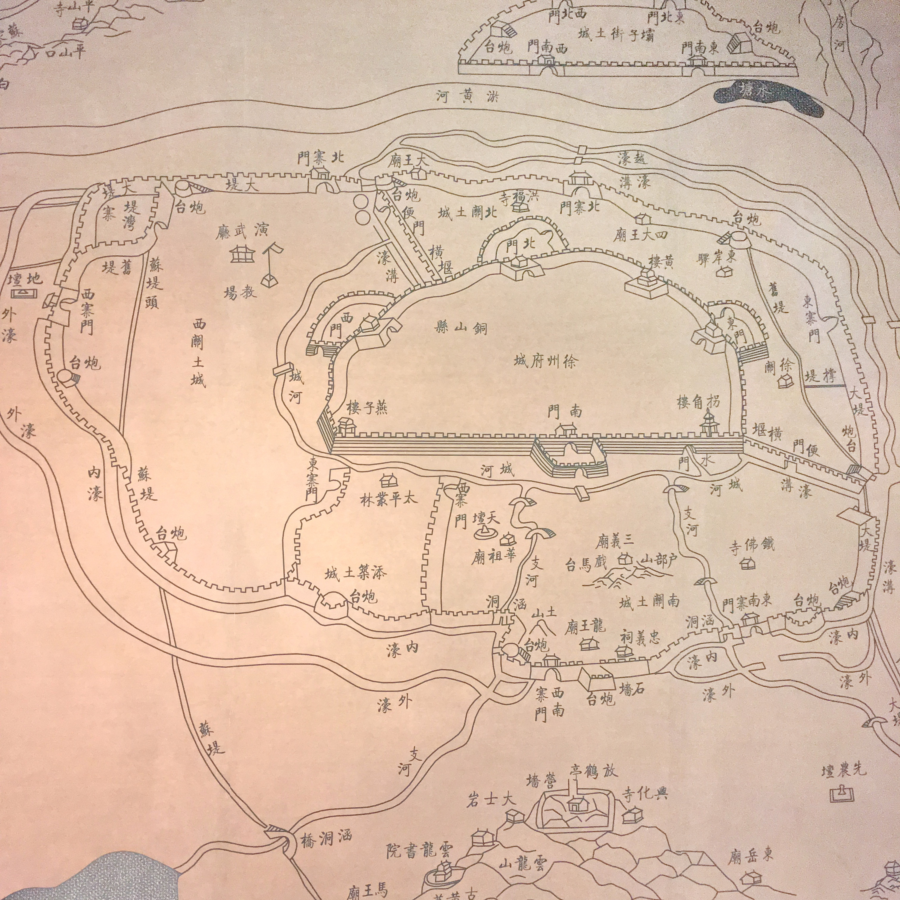 Map of Xuzhou Prefecture Walled City in Qing dynasty, at Xuzhou Museum (its original version from Gazetteer of Xuzhou Prefecture)